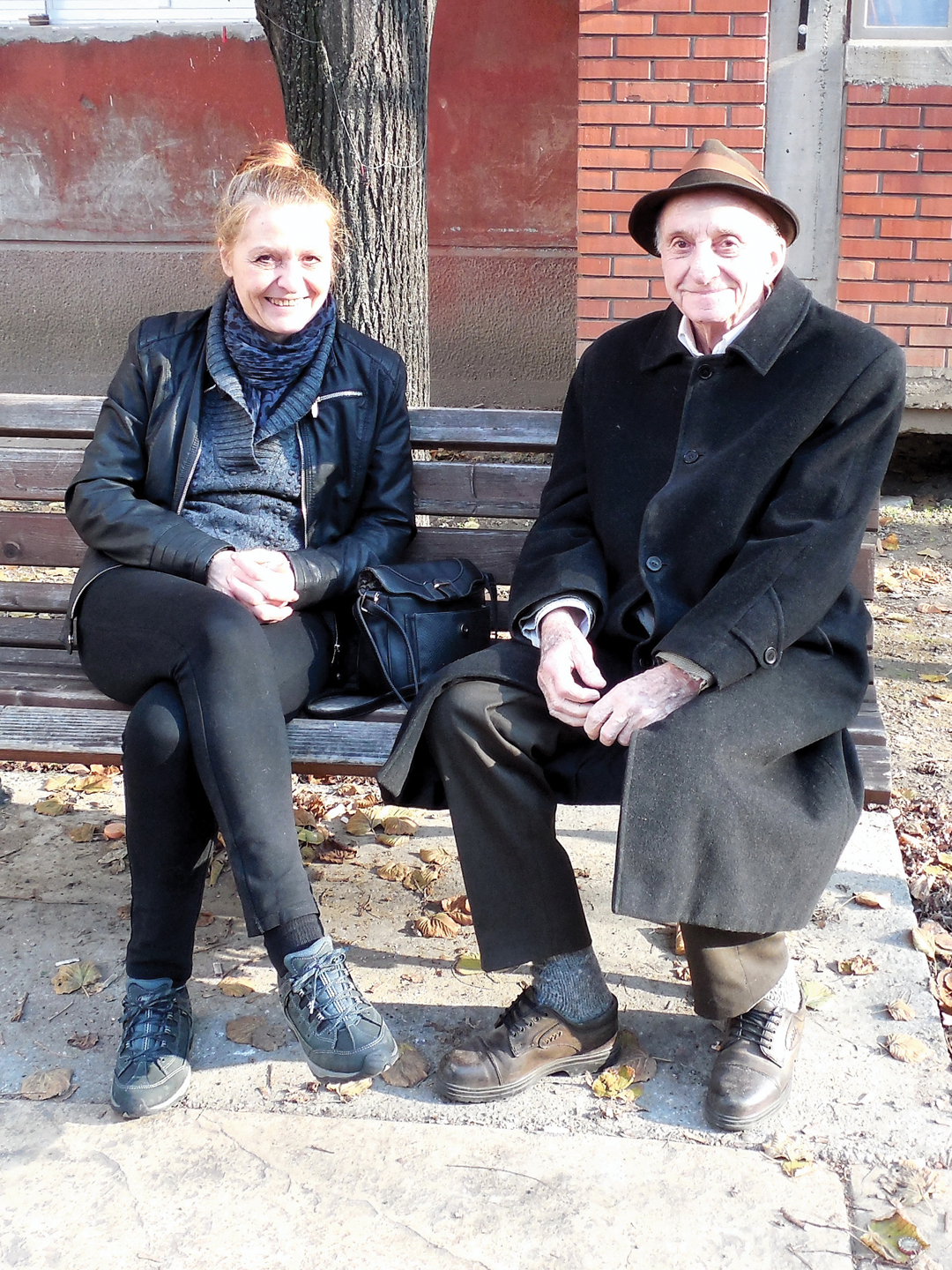 The last photo of Danilo Nikolić with his daughter Lidija Nikolić in December 2015, before he died in February next year. Српски (ћирилица): Последња фотографија Данила Николића са ћерком Лидијом, 27. 12. 2015.